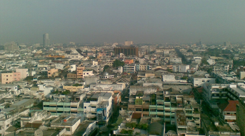 The skyline of Medan, Indonesia